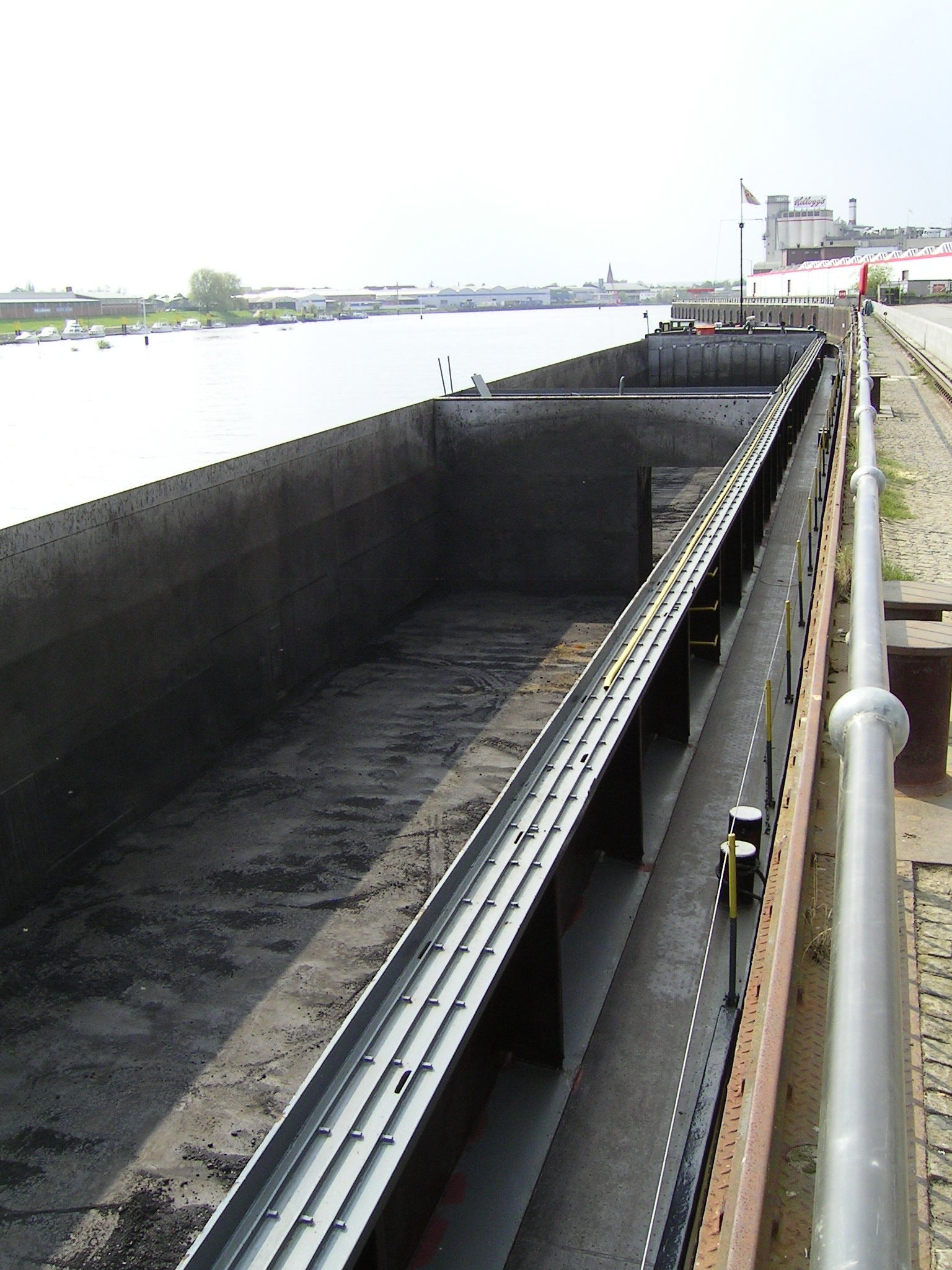 Coal barge Panther at Weser River in Bremen city